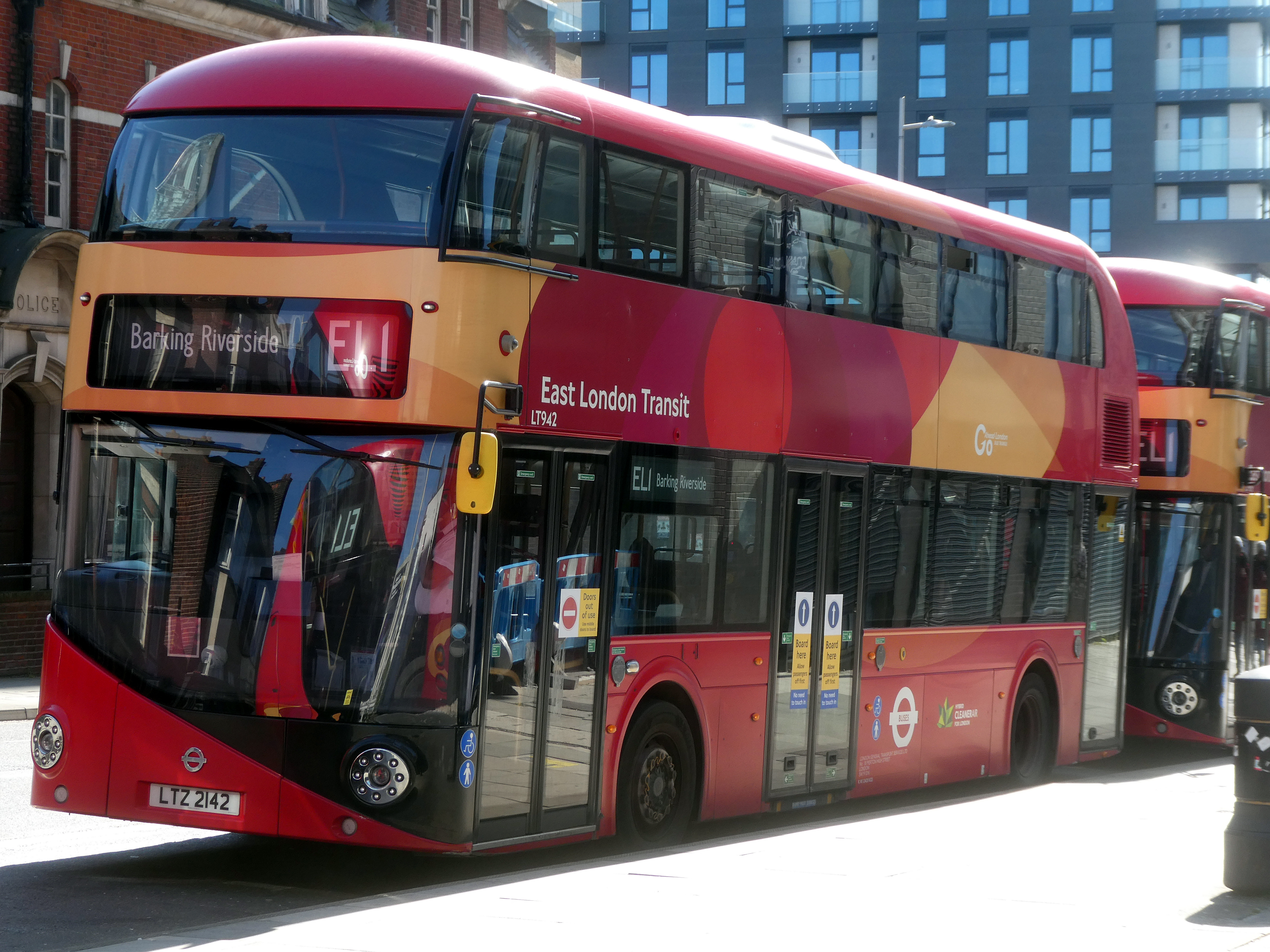 LTZ 2142 on London route EL1 during the spring 2020 Covid-19 virus pandemic with door signage requiring boarding passengers to do so at the middle doors instead of the front doors